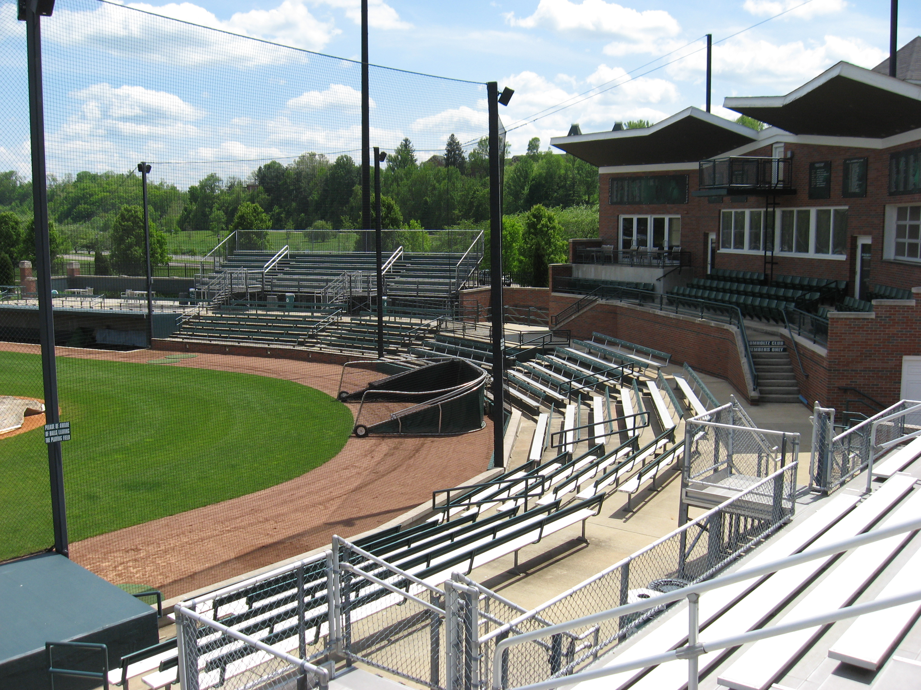 The grandstands of Bob Wren Stadium at Ohio University (Athens, USA)